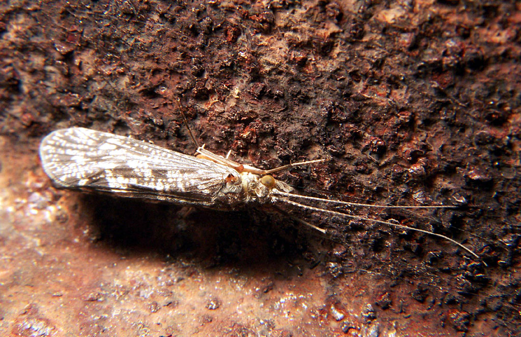 Original description on website: "Caddisfly adults resemble moths, but the wings are covered with fine hair instead of scales. (Trichoptera = "hair wing.") Caddisfly larvae are a favorite food of many fish, including trout, and are used as bait by sport fishermen. The larvae are especially sensitive to water pollution and their numbers can be monitored over a period of time as a good indicator of water quality. These primitive flying insects are most abundant near well-aerated streams and fast-flowing water, but also frequent lakes, ponds and marshes. This specimen was found at the west branch of the DuPage River, a fairly sluggish body of water, home to both large and smallmouth bass, walleye, and panfish such as bluegills and sunfish."